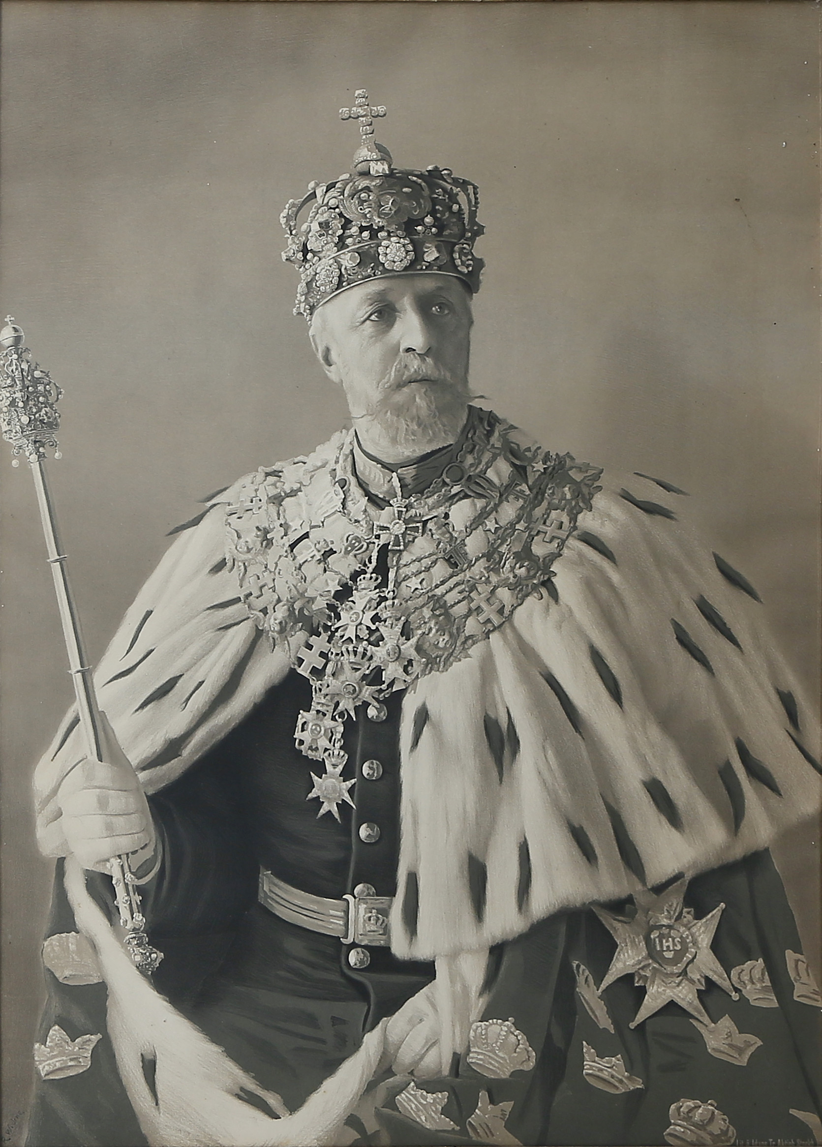 King Oscar II of Sweden in his regalia